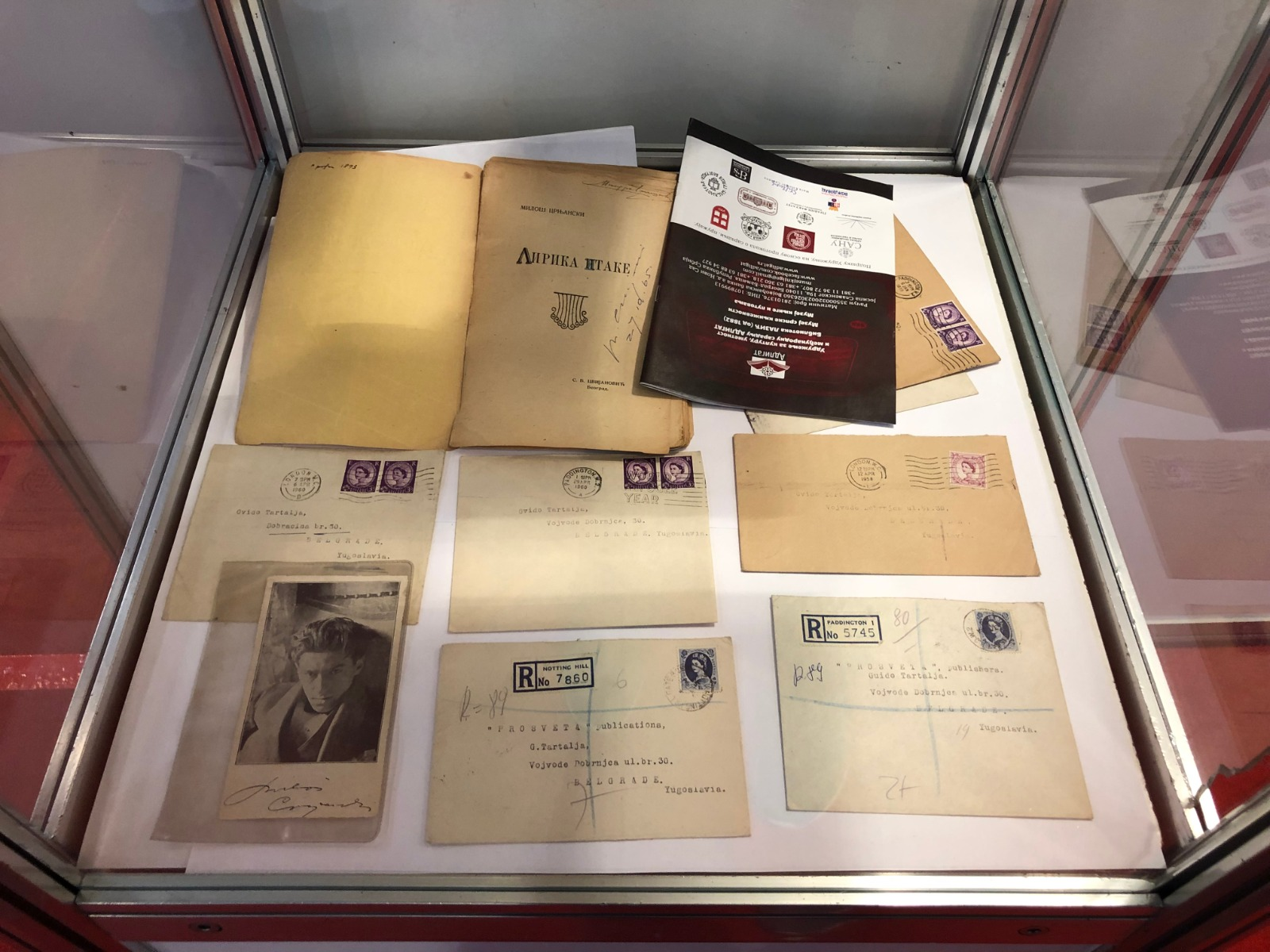 Letters and a book with signature from Miloš Crnjanski to Gvido Tartalja. They can be found in the Society for Culture, Art and International Cooperation Adligat in Belgrade, Serbia. Српски (ћирилица): Писма и посвета Милоша Црњанског Гвиди Тартаљу. Налазе се у Удружењу за културу, уметност и међународну сарадњу „Адлигат” у Београду.